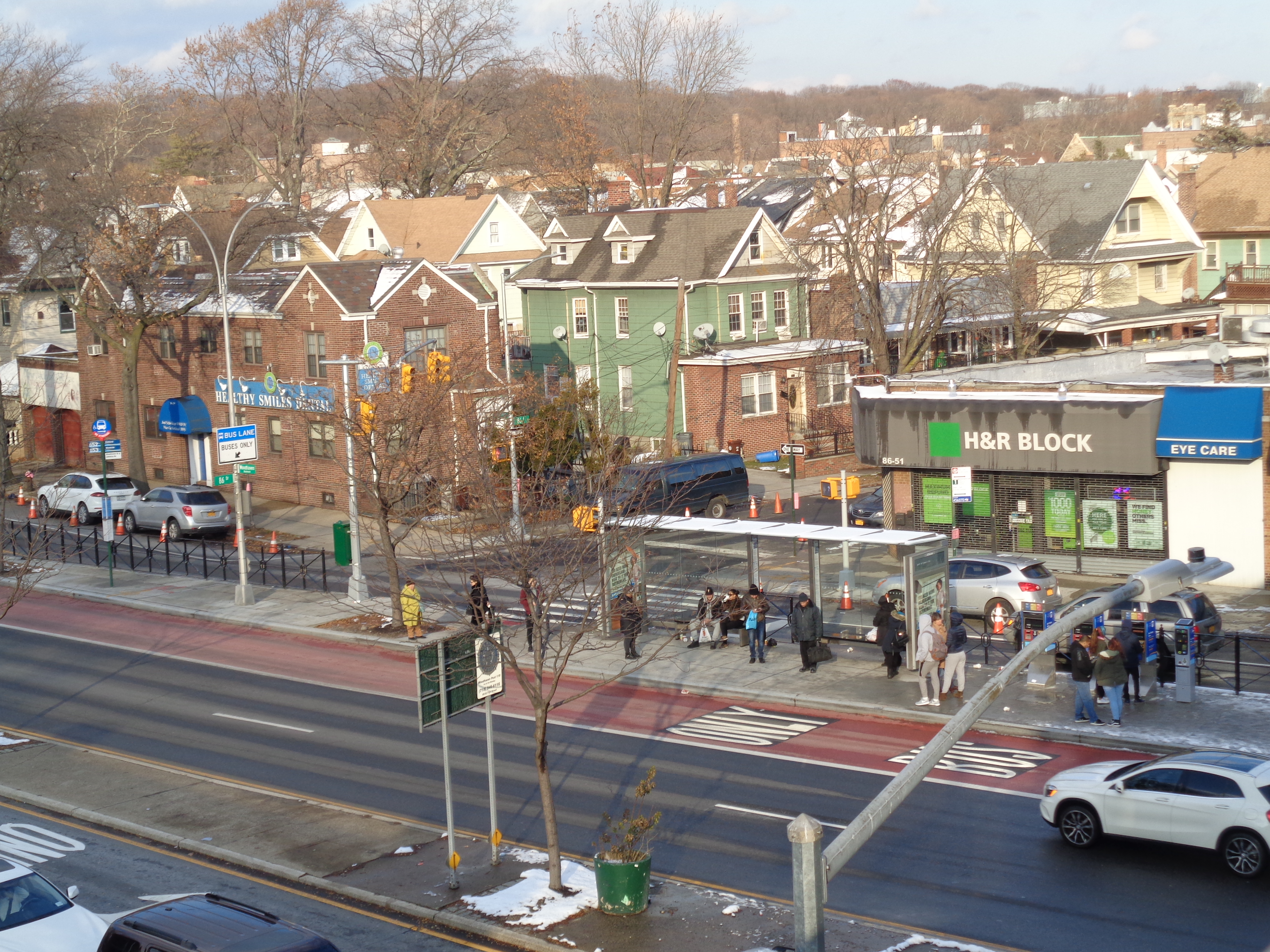 Looking north at Woodhaven Boulevard from the Woodhaven Boulevard BMT Jamaica Line station, above Jamaica Avenue in Woodhaven, Queens. Pictured is the northbound bus stop for Q52 and Q53 Select Bus Service.